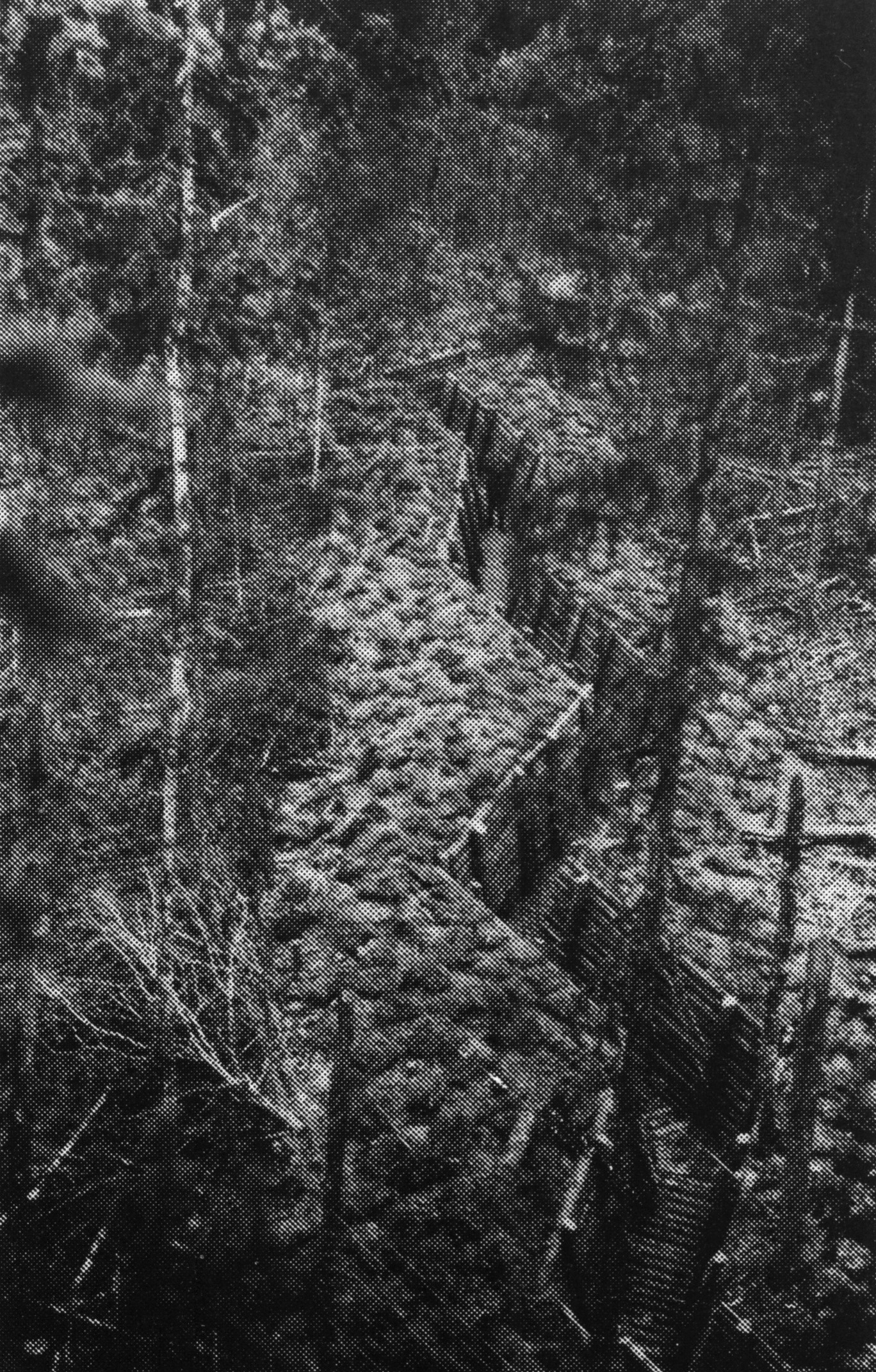 Finnish trench on the Carelian Isthmus in 1944.